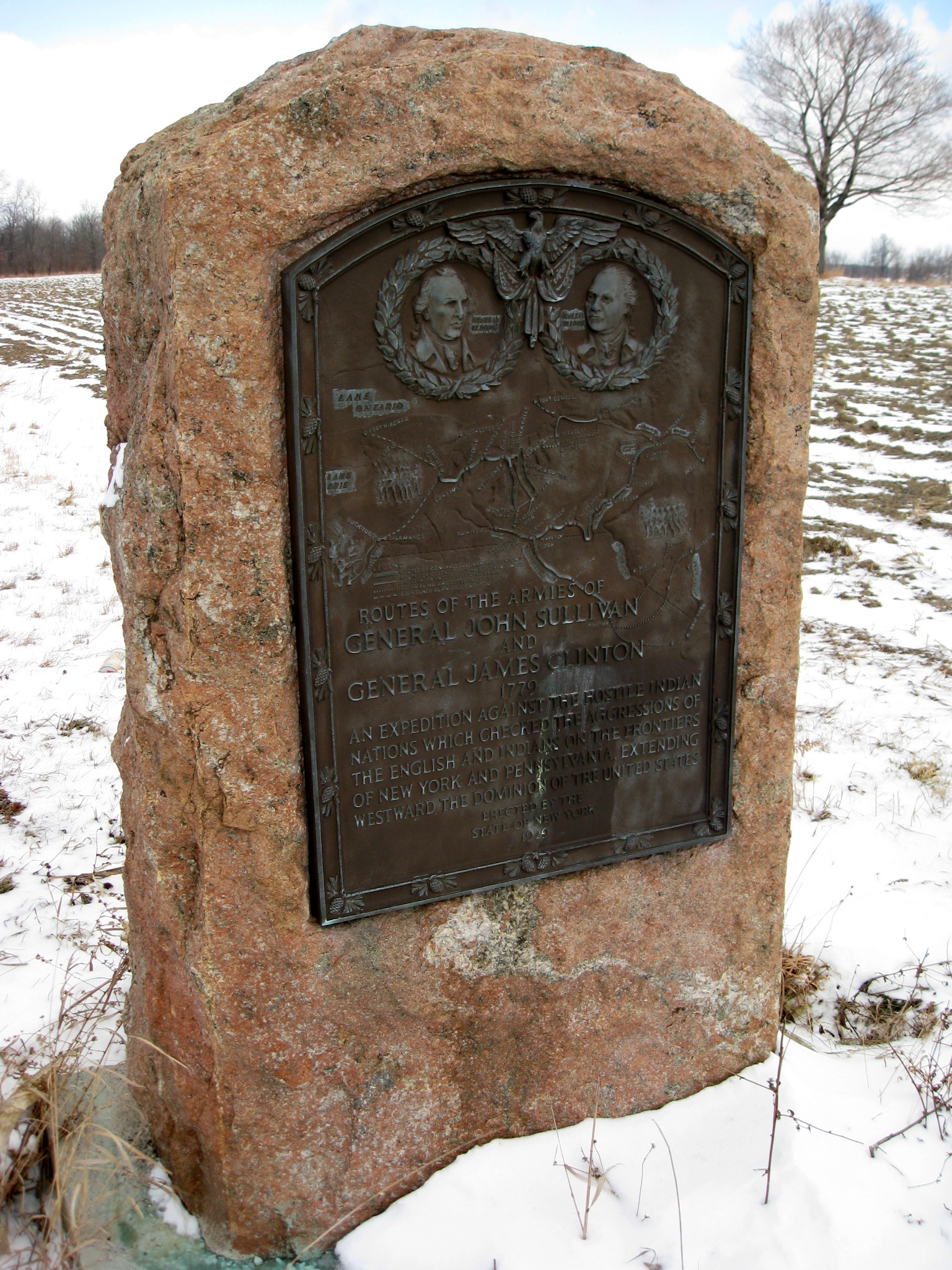 Commemorative plaque erected by the state of New York in 1929 of The Sullivan Expedition depicting the routes of the armies of General John Sullivan and General James Clinton. Picture was taken with a Canon Power Shot SD850 camera and modified using various programs on a laptop computer.